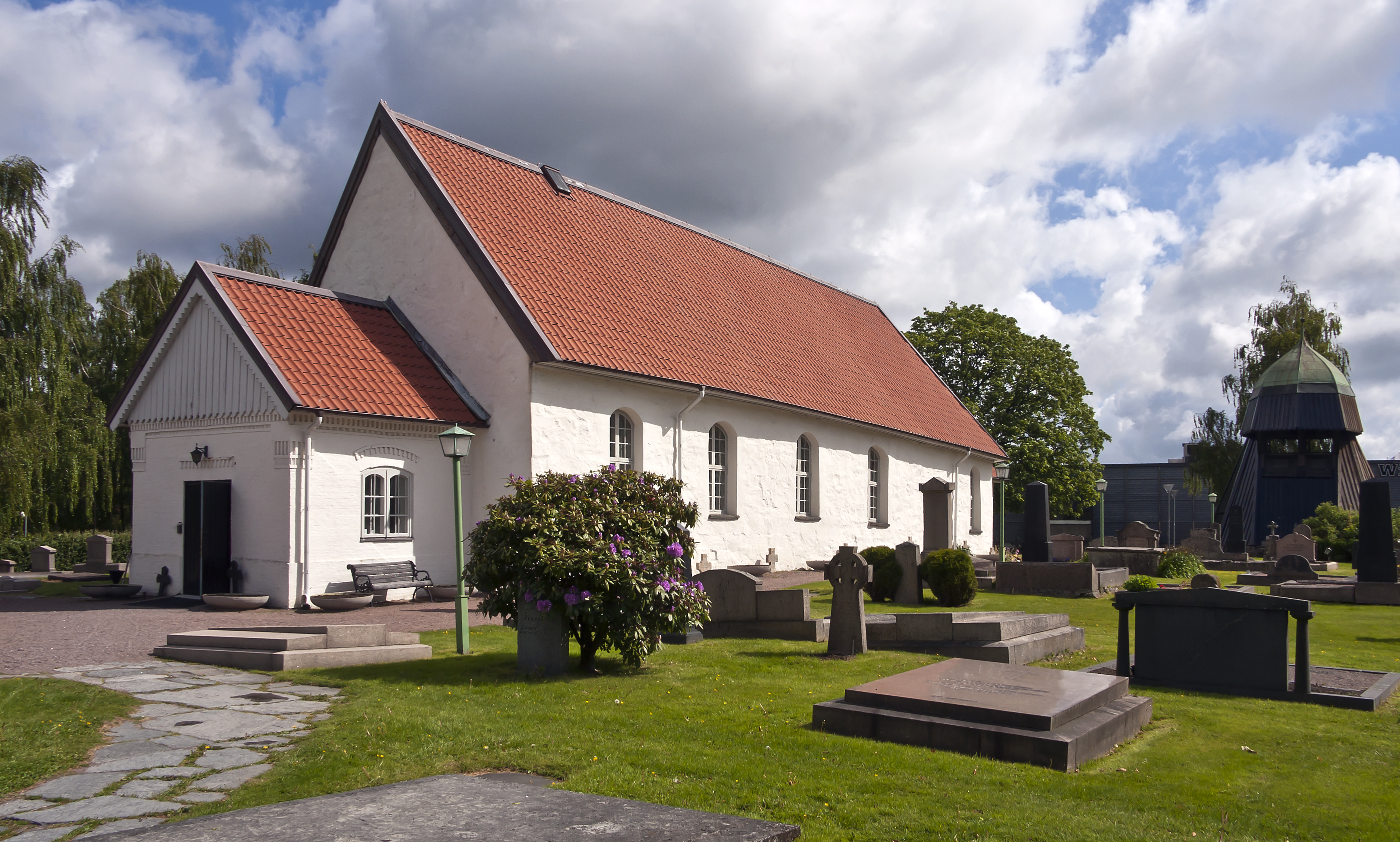 Partille kyrka in Partille, Sweden.